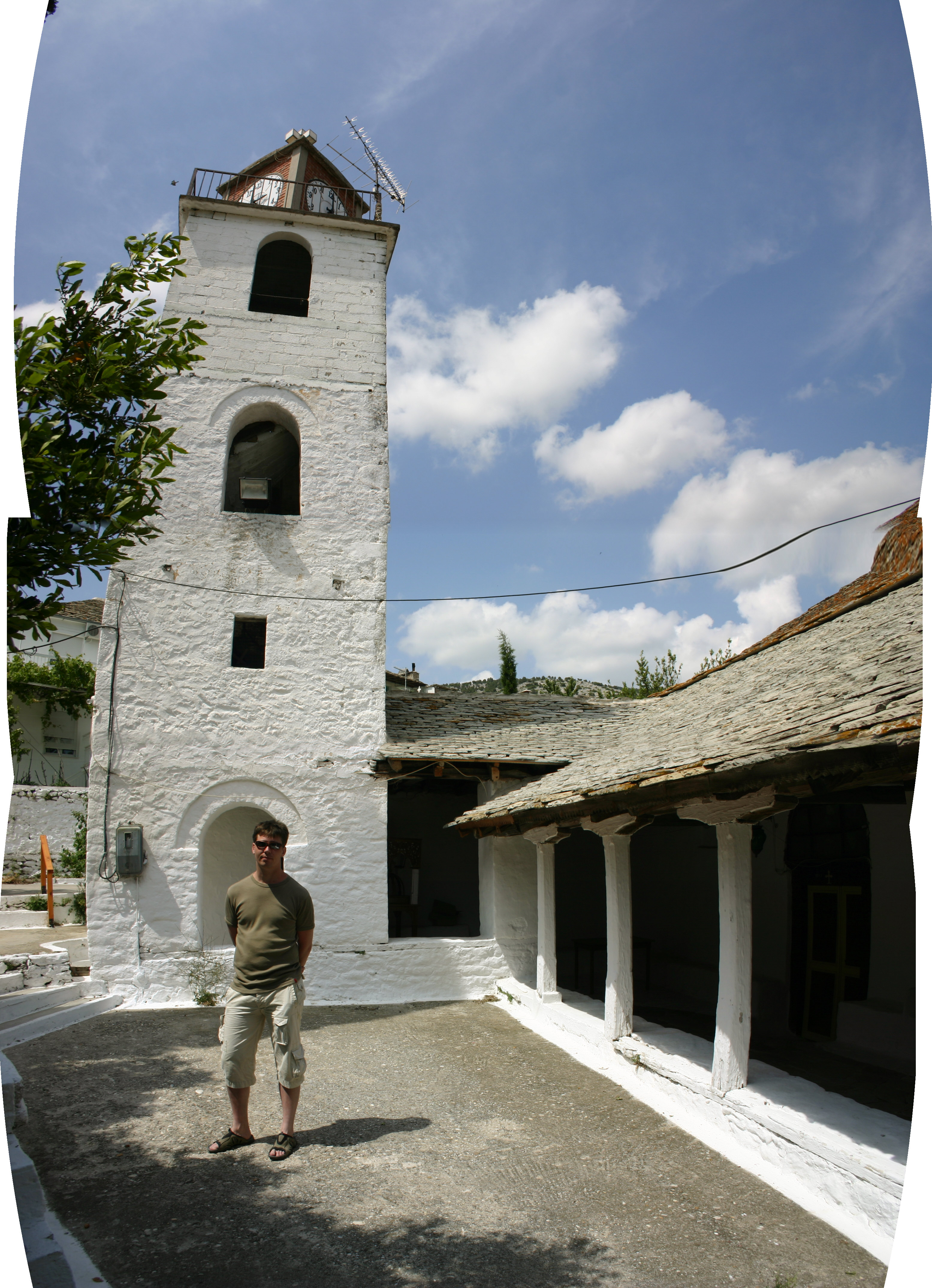 The church in Theologos, Thassos, Greece. (Note: Picture has Geotag information stored in EXIF.)